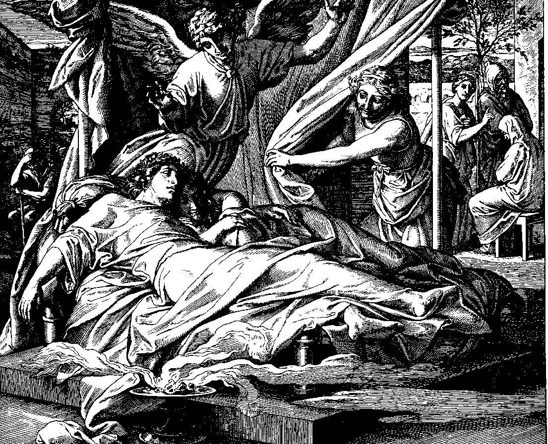 Woodcut for "Die Bibel in Bildern", 1860. Tobias and Sarah Awake